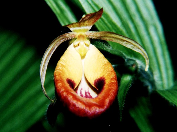 Selenipedium palmifolium